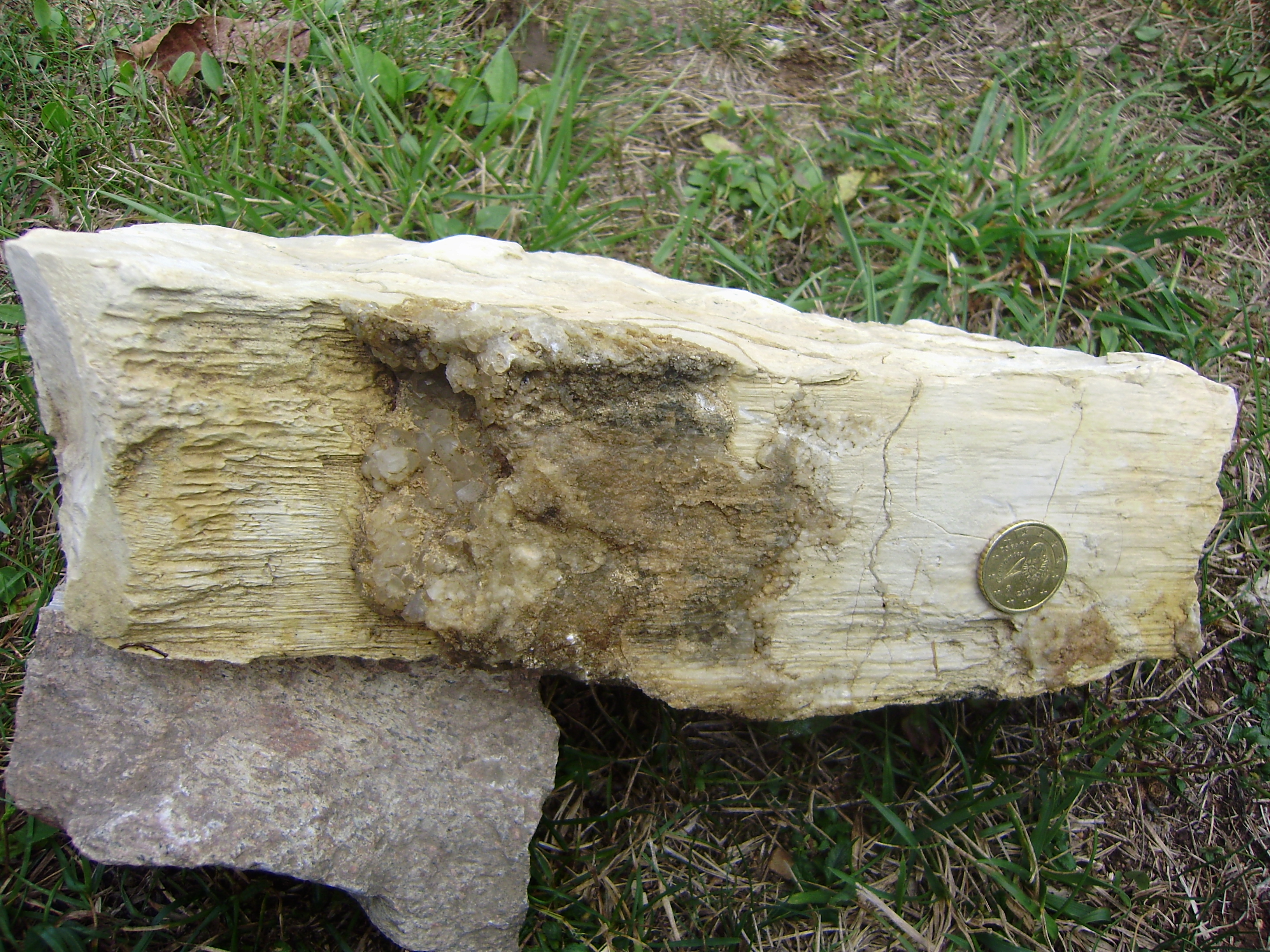 Lower Portlandian micrite from near Chapdeuil, Dordogne, France. Slickolites from a ESE-WNW wrench fault with a calcite-filled pull-apart structure. The sample stems from the La Tour Blanche anticline.